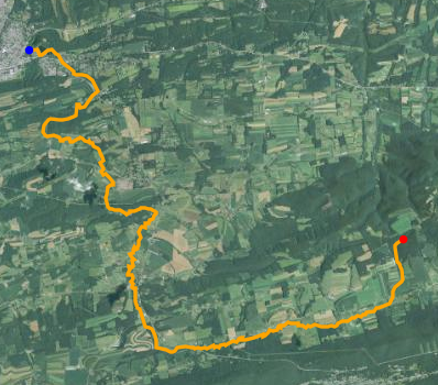 Satellite map of Little Shamokin Creek . The red dot is the stream's source and blue dot is its mouth. Data available from U.S. Geological Survey, National Geospatial Program.